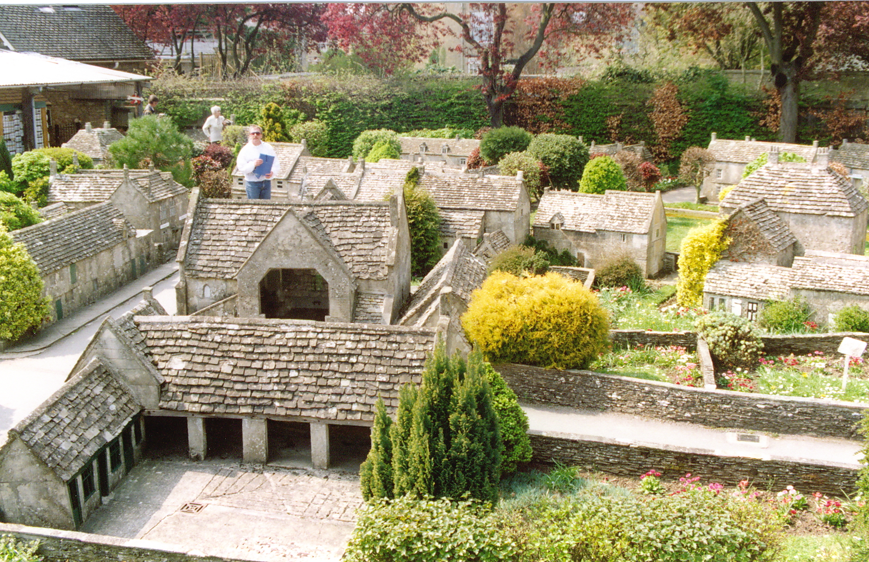 model village Bourton-on-the-water